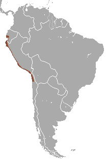 Smokey Bat (Amorphochilus schnablii) range